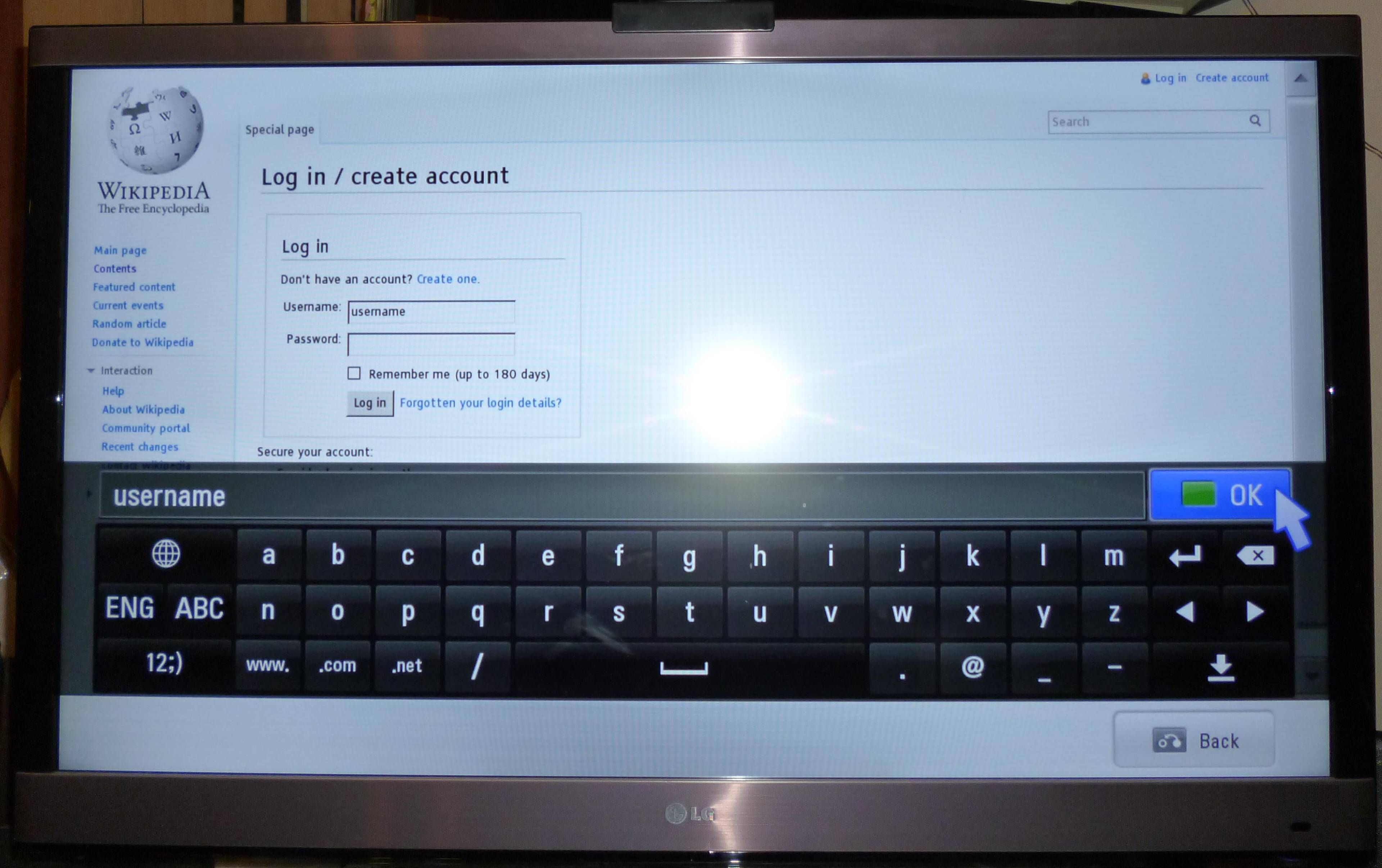 LG Smart TV model 42LW5700-TA showing web browser, with on-screen keyboard active